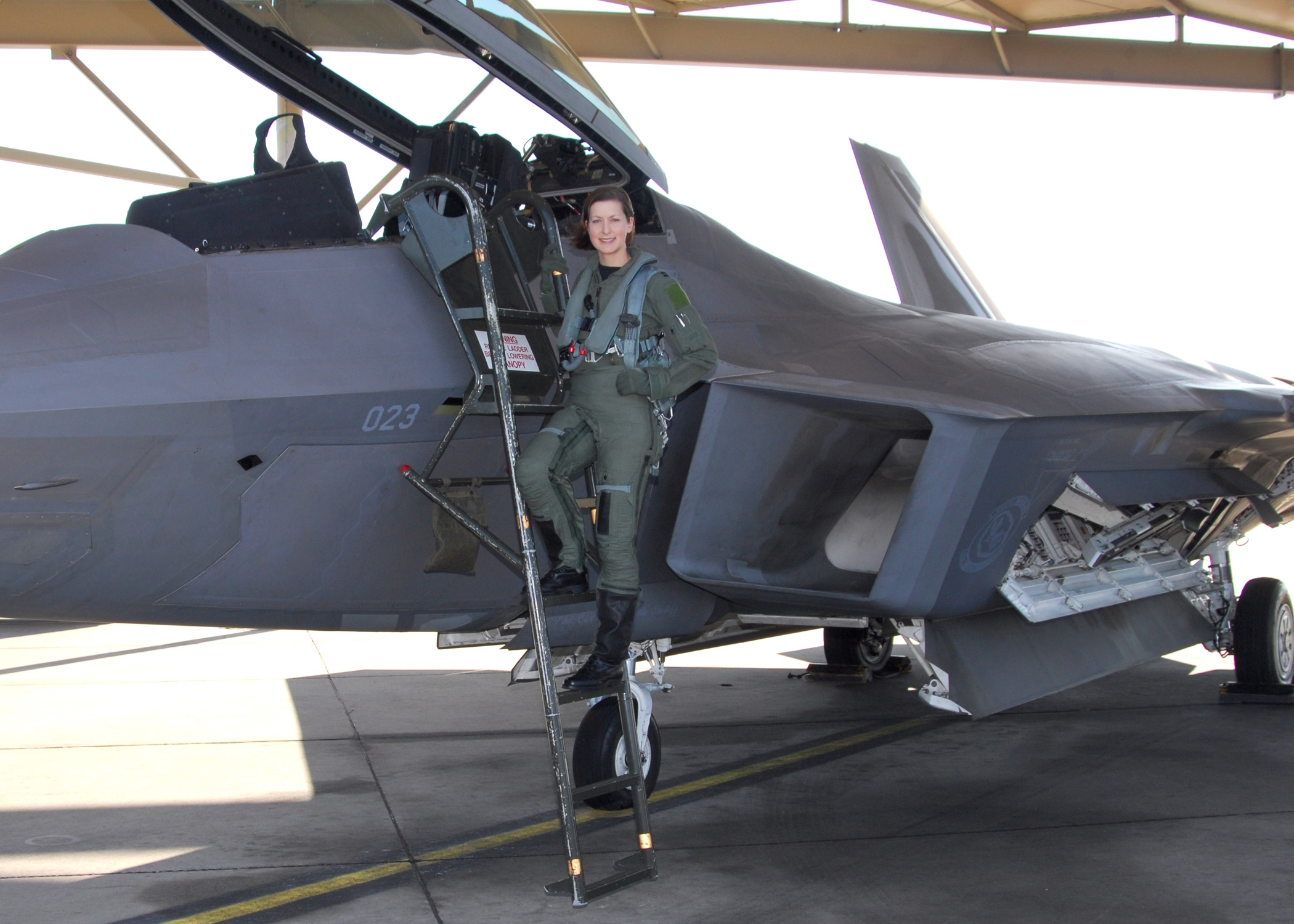 MCCHORD AIR FORCE BASE, Wash. -- Capt. Jammie Jamieson left the state of Washington with a fledgling love of flying. This weekend she returns as the first female operational and combat-ready pilot of the world's most advanced fighter aircraft, the F-22A Raptor.